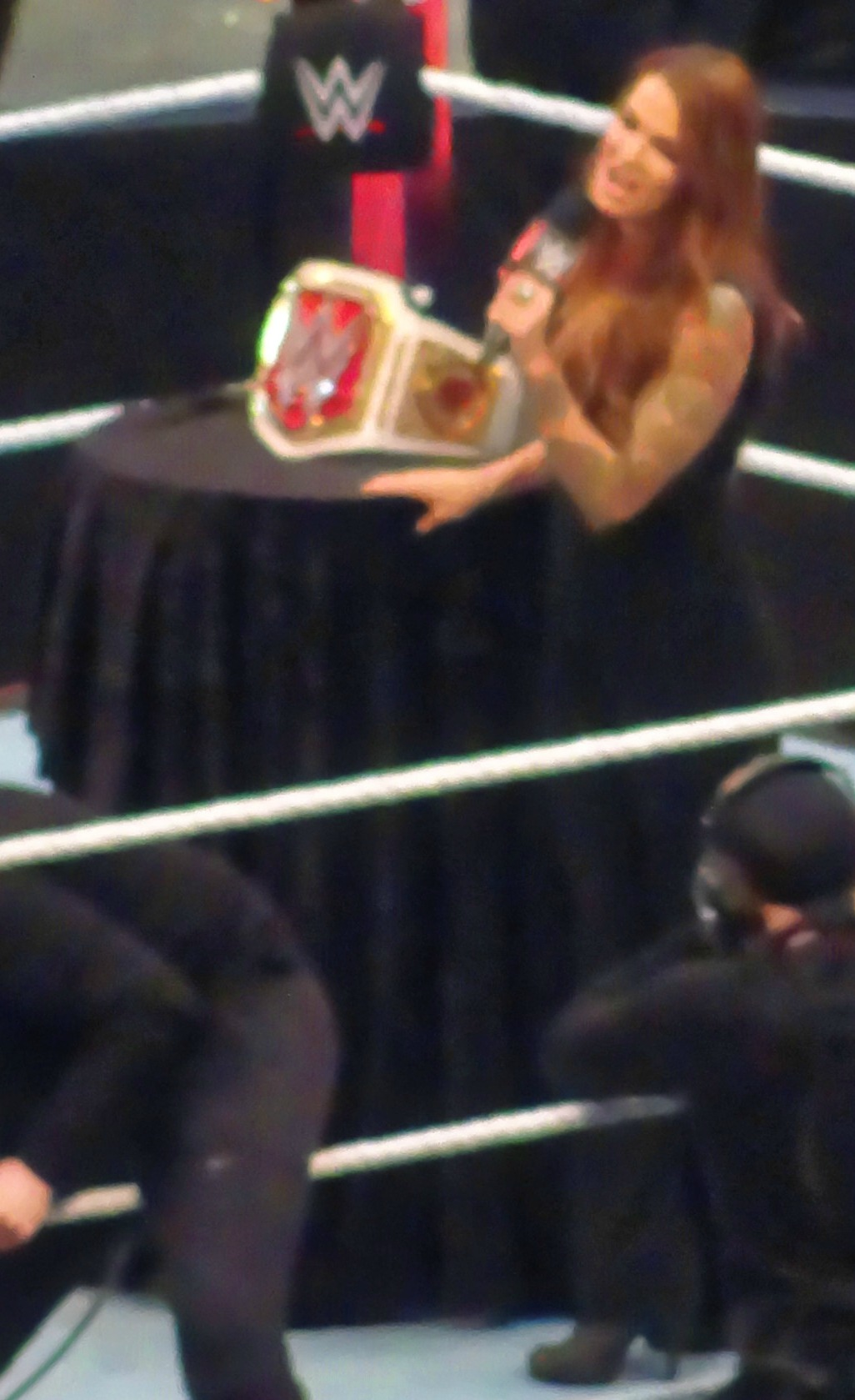 Lita during the presentation of the all-new WWE Women's Championship at WrestleMania 32 in April 3, 2016.